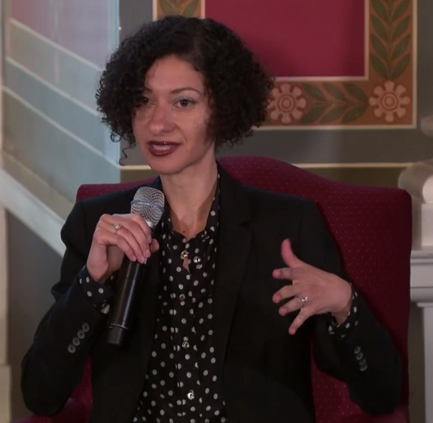 Title Becoming Interplanetary Summary This symposium, hosted by Lucianne Walkowicz, the Baruch S. Blumberg NASA/Library of Congress Chair in Astrobiology at the Library's John W. Kluge Center, featured panel discussions on how current narratives, policies and laws frame human exploration and presence in space. The panels included a diverse group of thought leaders including astrobiologists, anthropologists, policy experts, artists and journalists whose work has relevance to the human exploration of Mars. The panels included "Becoming Interplanetary" with Brenda J. Child, Brian Nord, Chanda Prescod-Weinstein and Ashley Shew; "Mars on Earth" with Dana Burton, Nathalie Cabrol, Bobak Ferdowsi and Margaret Huettl; and "Alternative Futurisms" with D. Denenge Duyst-Akpem, Willi Lempert, Enongo Lumumba-Kasongo and Ytasha Womack, plus performances by DXTR Splits, SAMMUS and D. Denenge Duyst-Akpem. Event Date September 27, 2018 Running Time 5 hours, 21 minutes, 47 seconds